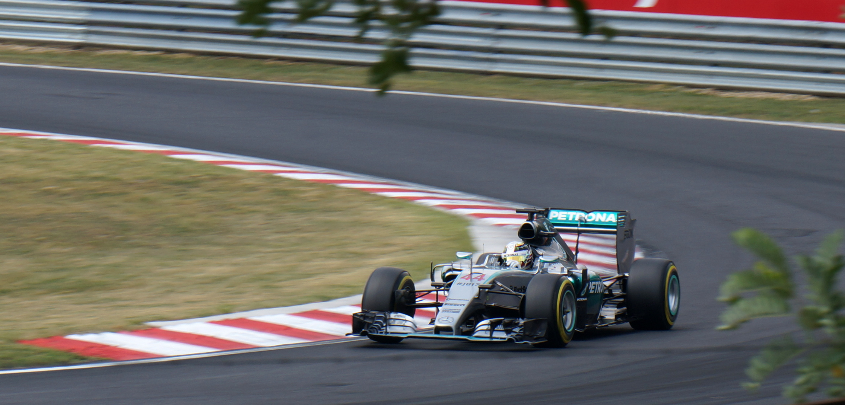 Lewis Hamilton during qualifying for the 2015 Hungarian Grand Prix